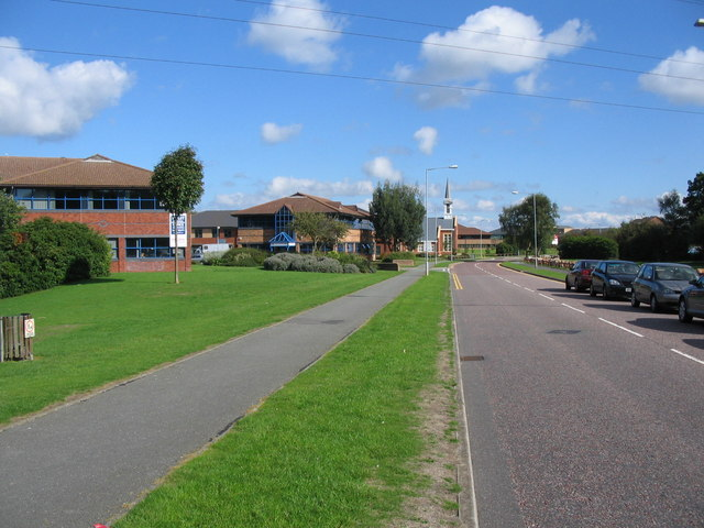 St. Davids Park A view looking northeast along St. Davids Park. The building with the tower in the distance is a meetinghouse of The Church of Jesus Christ of Latter-day Saints, and is not shown as such on the OS map.